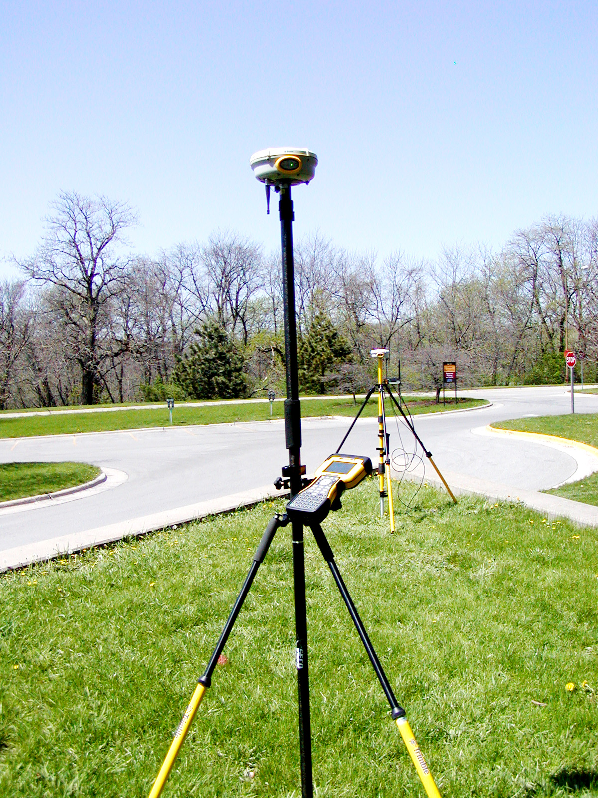 Station, GPS receiver.